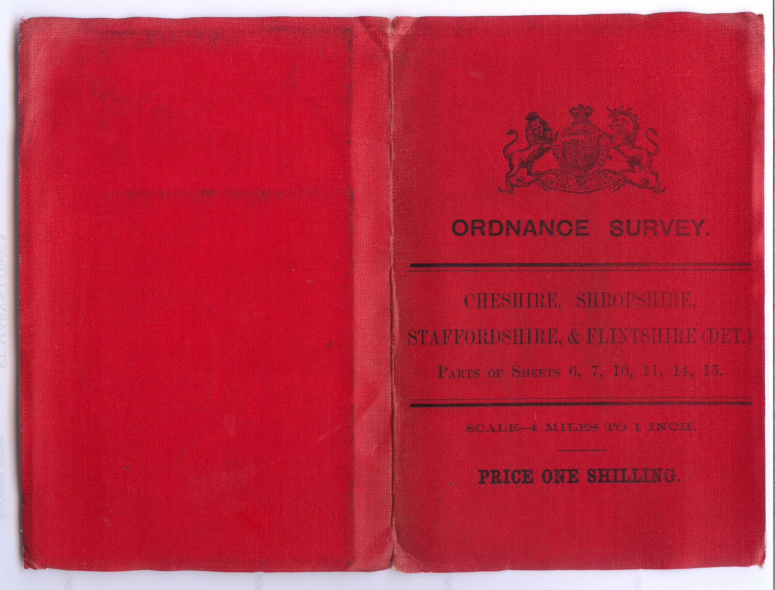 Ordnance Survey map, 1902, Four miles to one inch Open book 210x157mm Reprint 500/1902. Arms of Queen Victoria. Cheshire, Shropshire, Staffordshire and Flintshire (detached). Parts of sheets 6, 10, 11, 14, 15.